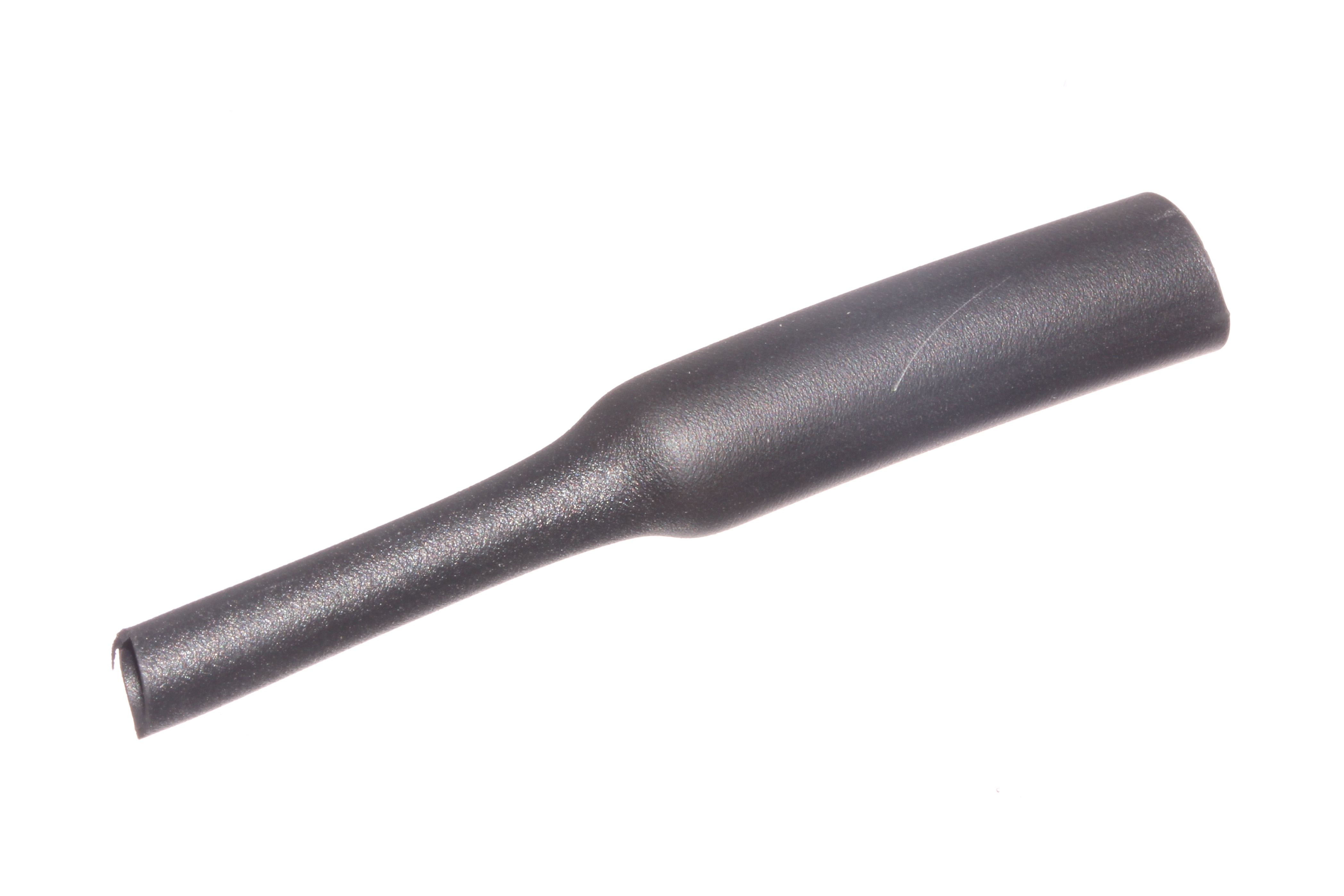 What is OOMP? OOMP is the Open Organization Method for Parts. A project tackling the complex landscape that is electronic components. Want to know more? oom.lt/OOMP